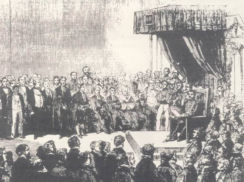 The first opening of the Cape Parliament. 1854. Presided over by Governor Grey.